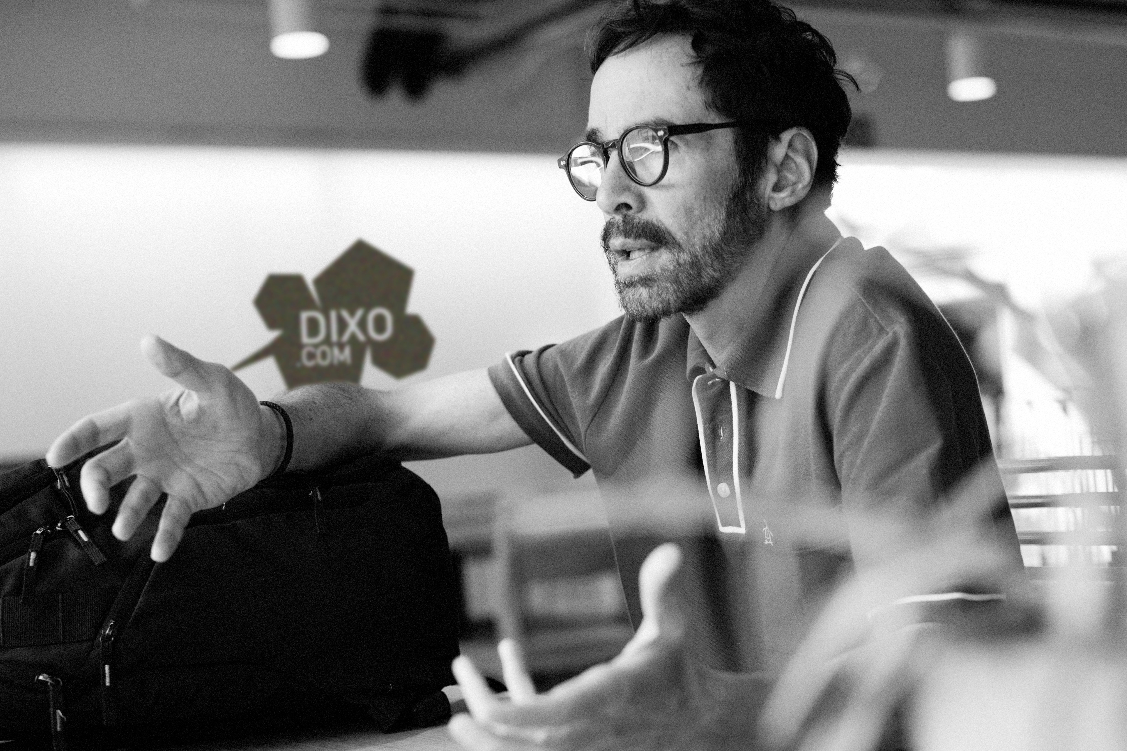 Mexican podcast producer and filmmaker Dany Saadia at Dixo, 2019